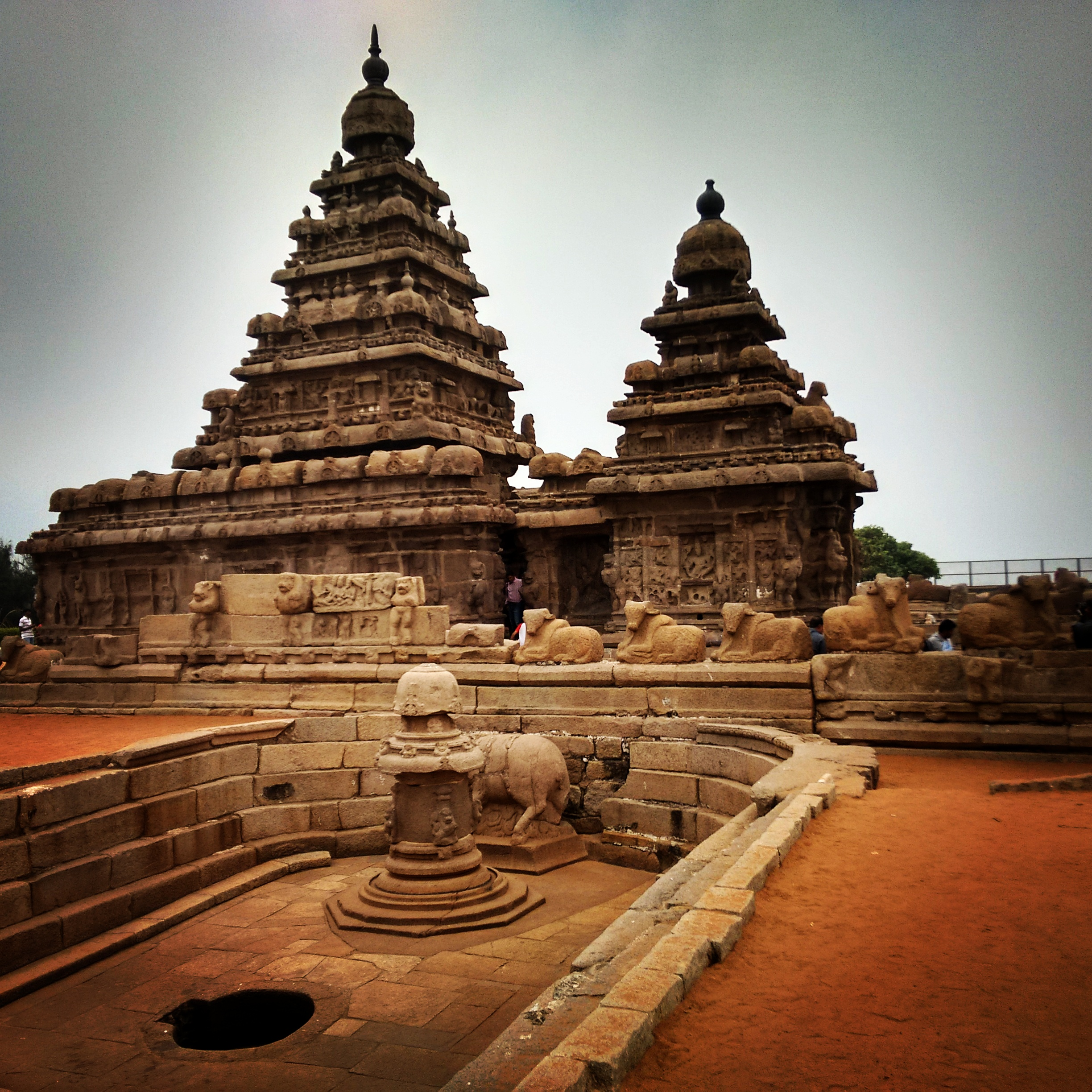 One of the Rathas of the Five at mamallapuram. There was this a pond where nandi was there and it was an epic of architecture